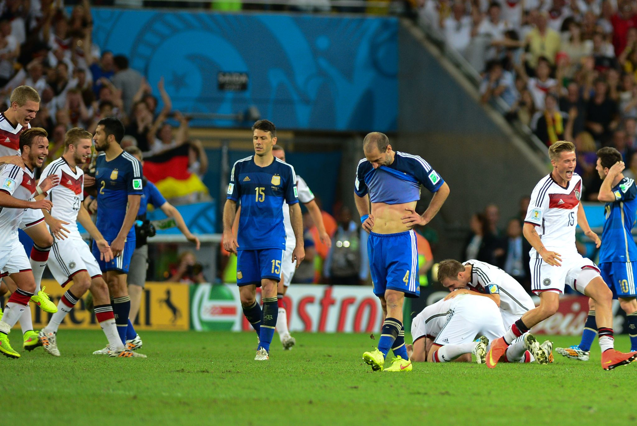 Germany wins it's 4th FIFA World Cup, after beating Argentina 1-0.